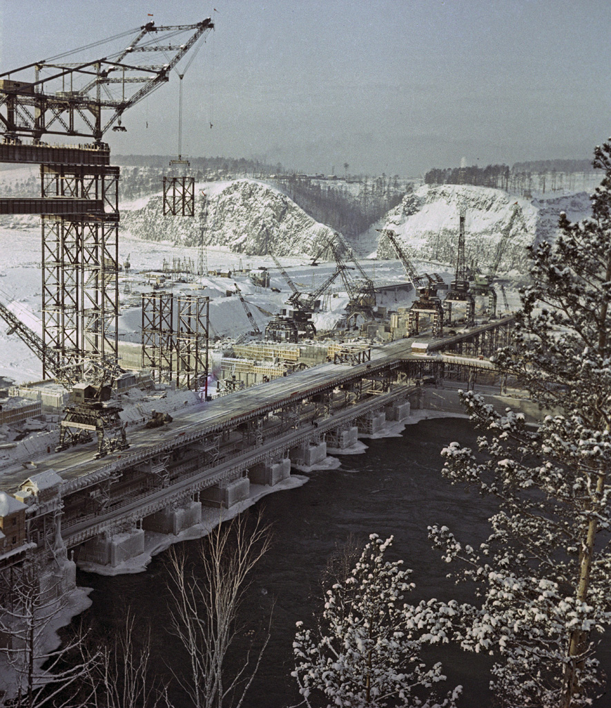 “Construction of Bratsk hydroelectric power station”. View on the dam. Construction of Bratsk hydroelectric power station.